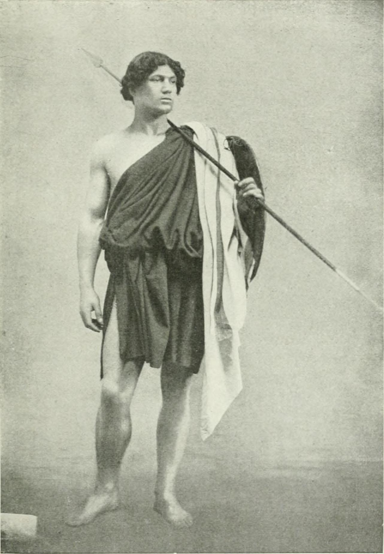 Title: Histoire du costume antique d'après des études sur le modèle vivant Year: 1922 (1920s) Authors: Heuzey, Léon Alexandre, 1831-1922 Subjects: Costume Costume Publisher: Paris : É. Champion Text Appearing Before Image: 7- Fis;. 20. — Exemple de i.f.xomide-oiverte.Daprès un bas-relief. Text Appearing After Image: Fi?. 2r. — Pose du modèle \ivant,avec lexomide-ouverte. 4-2 HISTUIKF. DU CUSTUMi: ANTlyUE Elle représente un départ pour la guerre, motif assezfréquent sur les stèles funéraires de la belle époque, enparticulier sur celles qui étaient consacrées à des citoyensmorts en combattant. La pose offre beaucoup danalogieavec celle du Doryphore de Polyclète, sauf quil y achangement de jambes et que le bras gauche porteréellement la lance avec le bouclier. Lépée est suspendueautour de la poitrine ; la main droite abaissée tient lakyné, le bonnet de guerre ; mais surtout notre doryphore,au lieu dêtre nu, est vêtu de lexomide ouverte, surlaquelle il a jeté négligemment son manteau militaire.La figure, ainsi ajustée, est vraiment belle et du stylegrec le plus pur. Stackelberg, à cause de la kyné, à cause aussi de lexo-mide, croit pouvoir reconnaître ici un esclave armé, peut-être un hilote laconien. A mon sens, cest faire un peutrop darchéologie. Il sagit simplement du